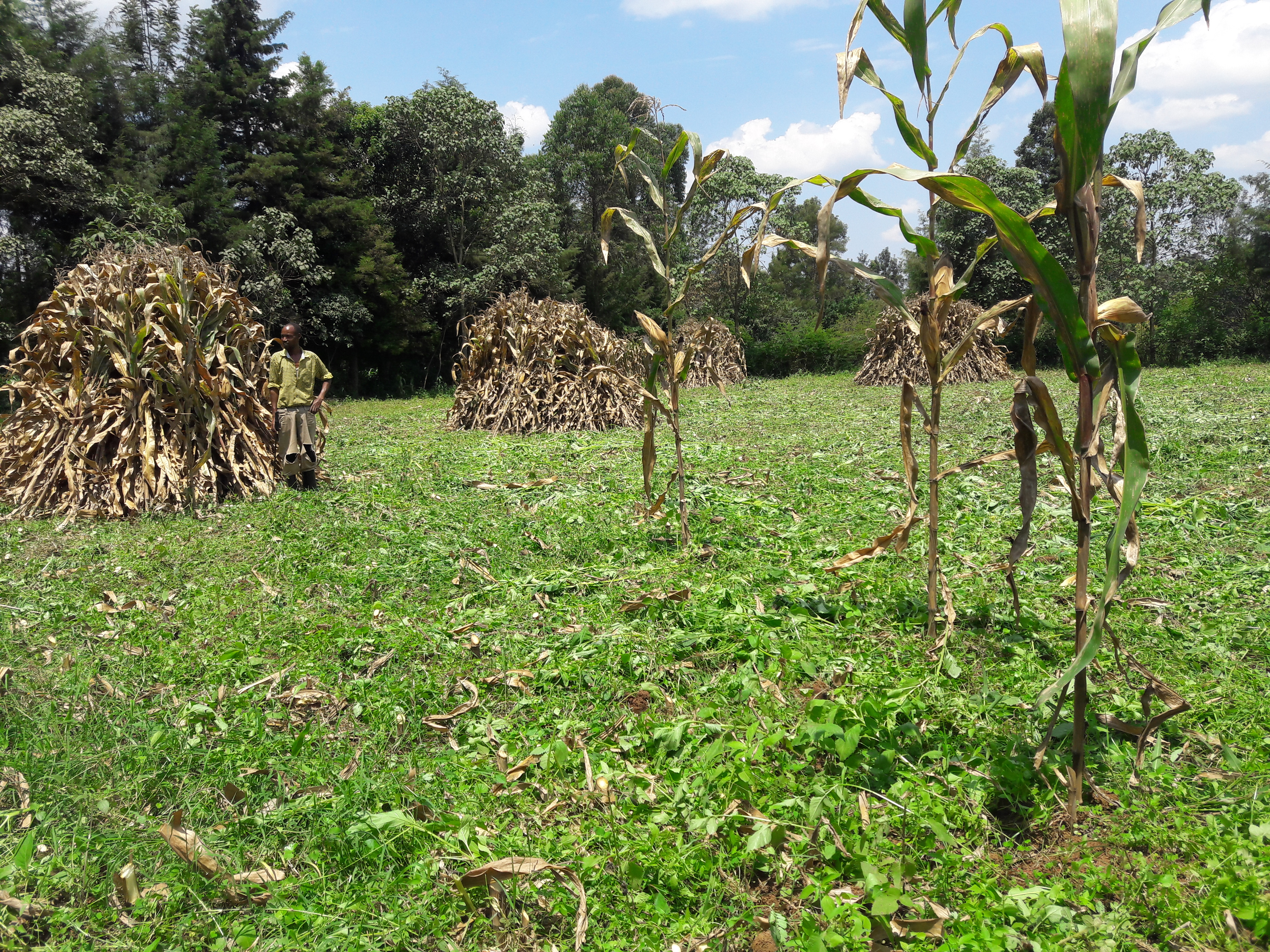 People at work. Harvesting maize by the method of Stooking. Maize is the stable food in Kenya. Majority of Africa's population depends on agriculture for the eradication of hunger and poverty. This is an image of "African people at work" from Kenya